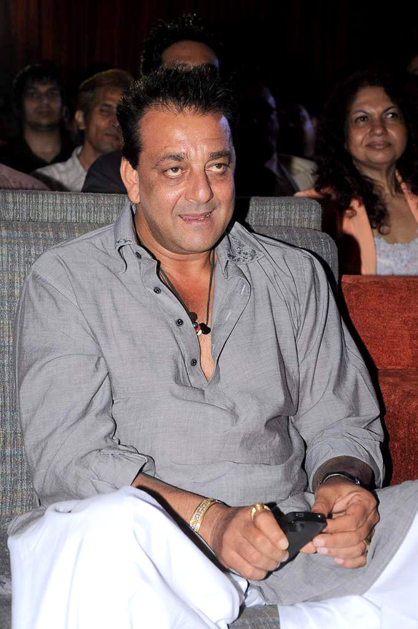 Sanjay Dutt at the launch of T P Aggarwal's trade magazine 'Blockbuster'